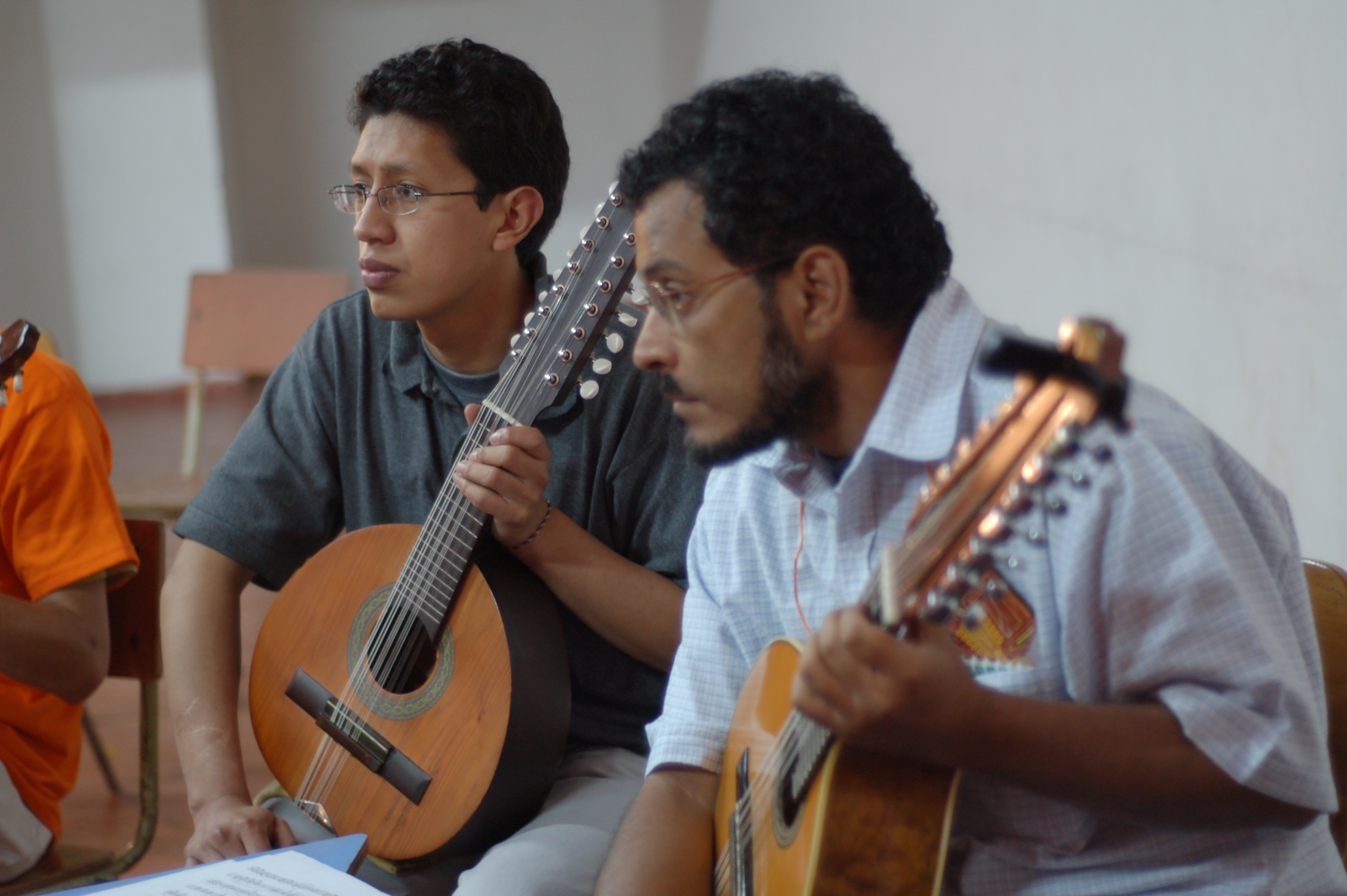 Two musicians playing Bandola Andina Columbiana.